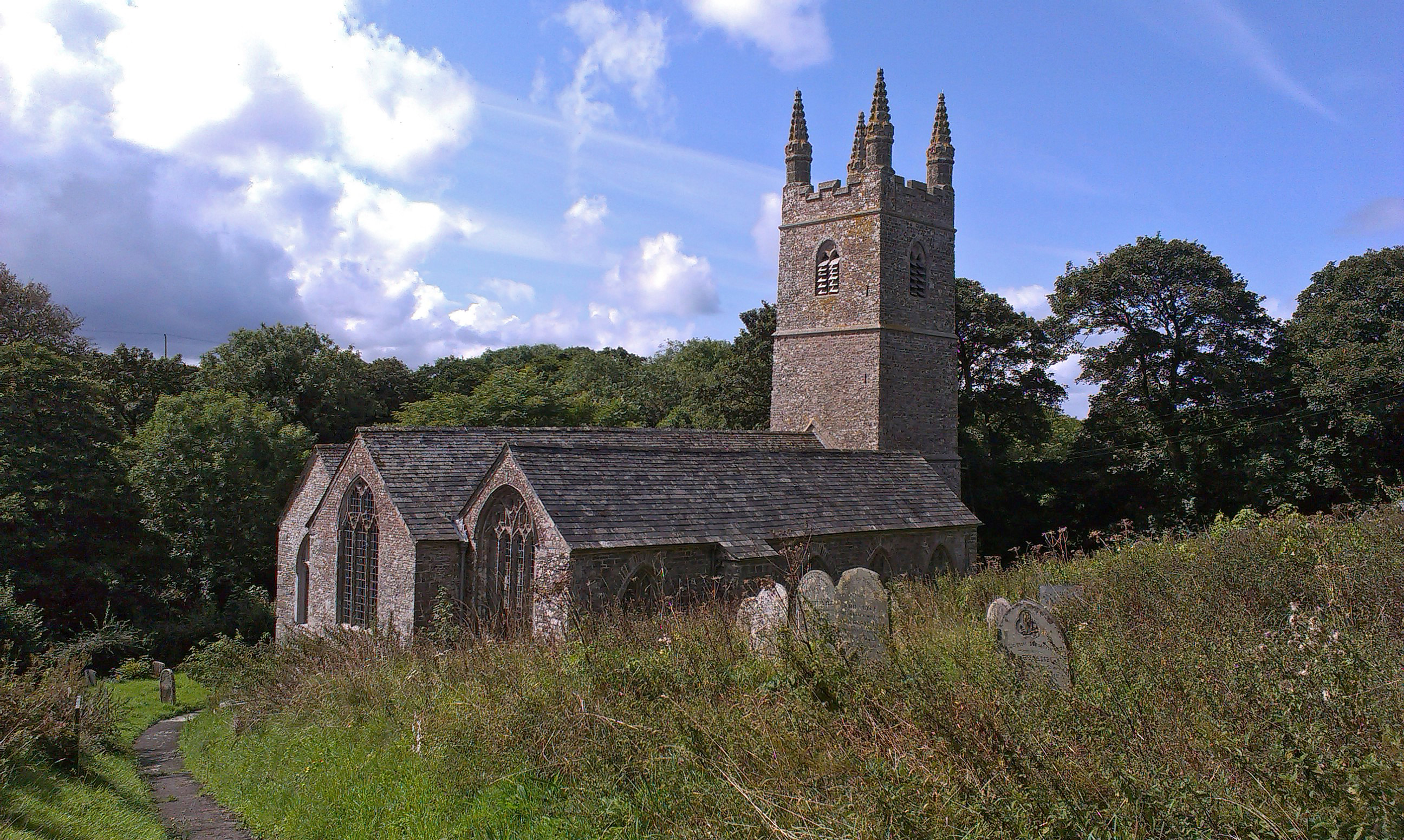 CHURCH OF ST SWITHIN, Launcells, Cornwall